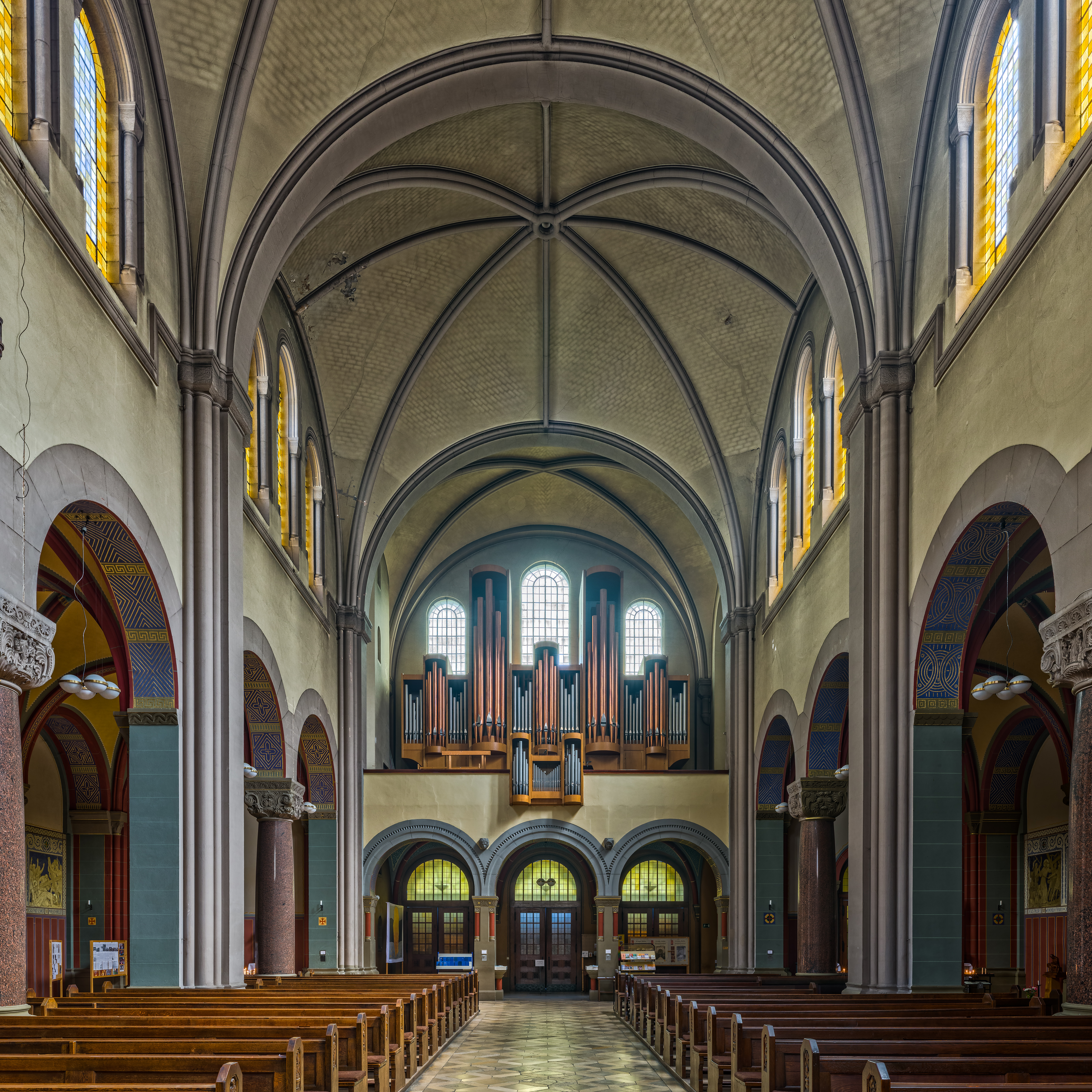 Interior of the Catholic Church of St. Joseph in Berlin-Wedding. View from the choir towards the main entrance.This is a photograph of an architectural monument.